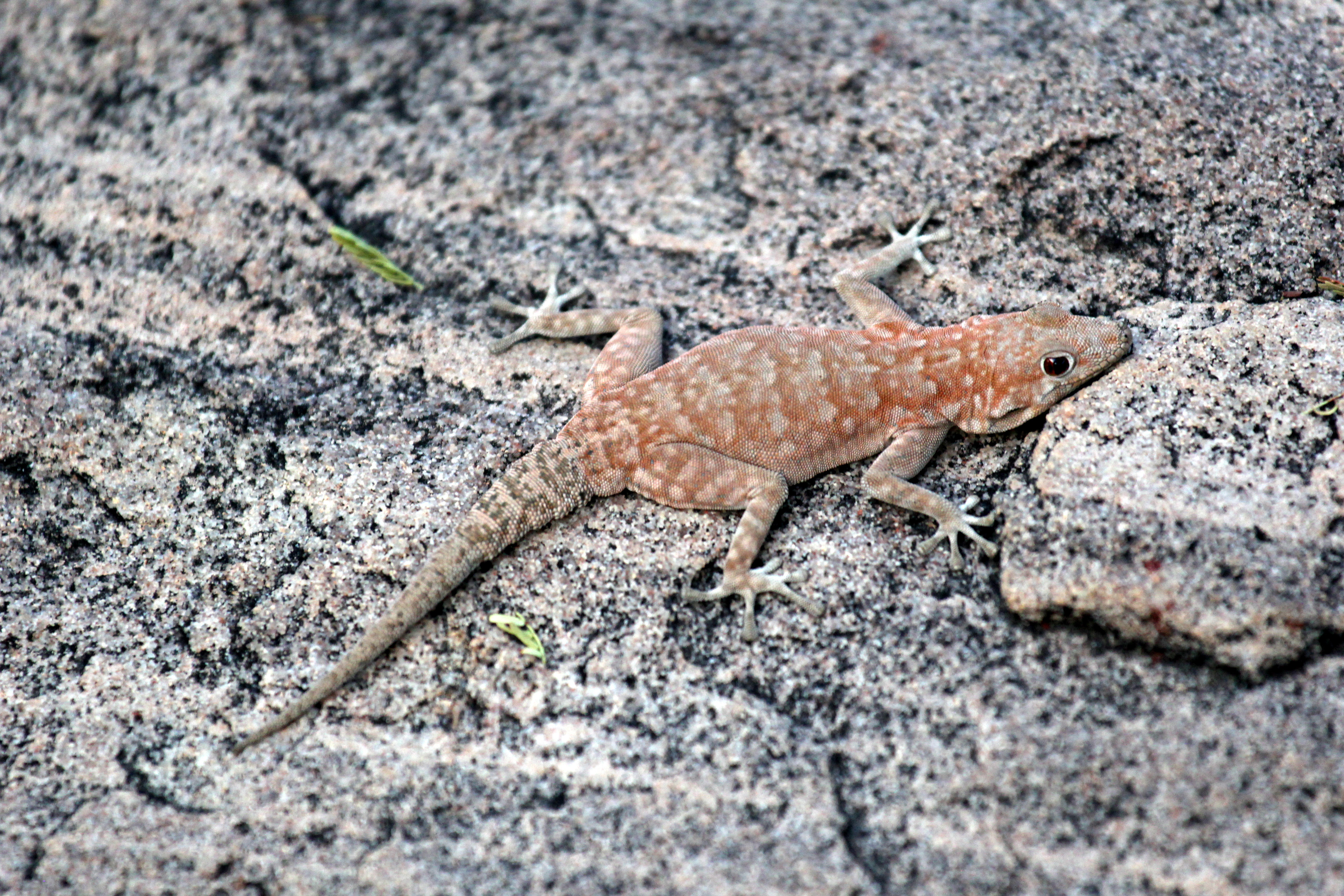 This is not a Ptenopus species. It MIGHT be one of the Namib day geckoes, Rhoptropus (barnardi?)